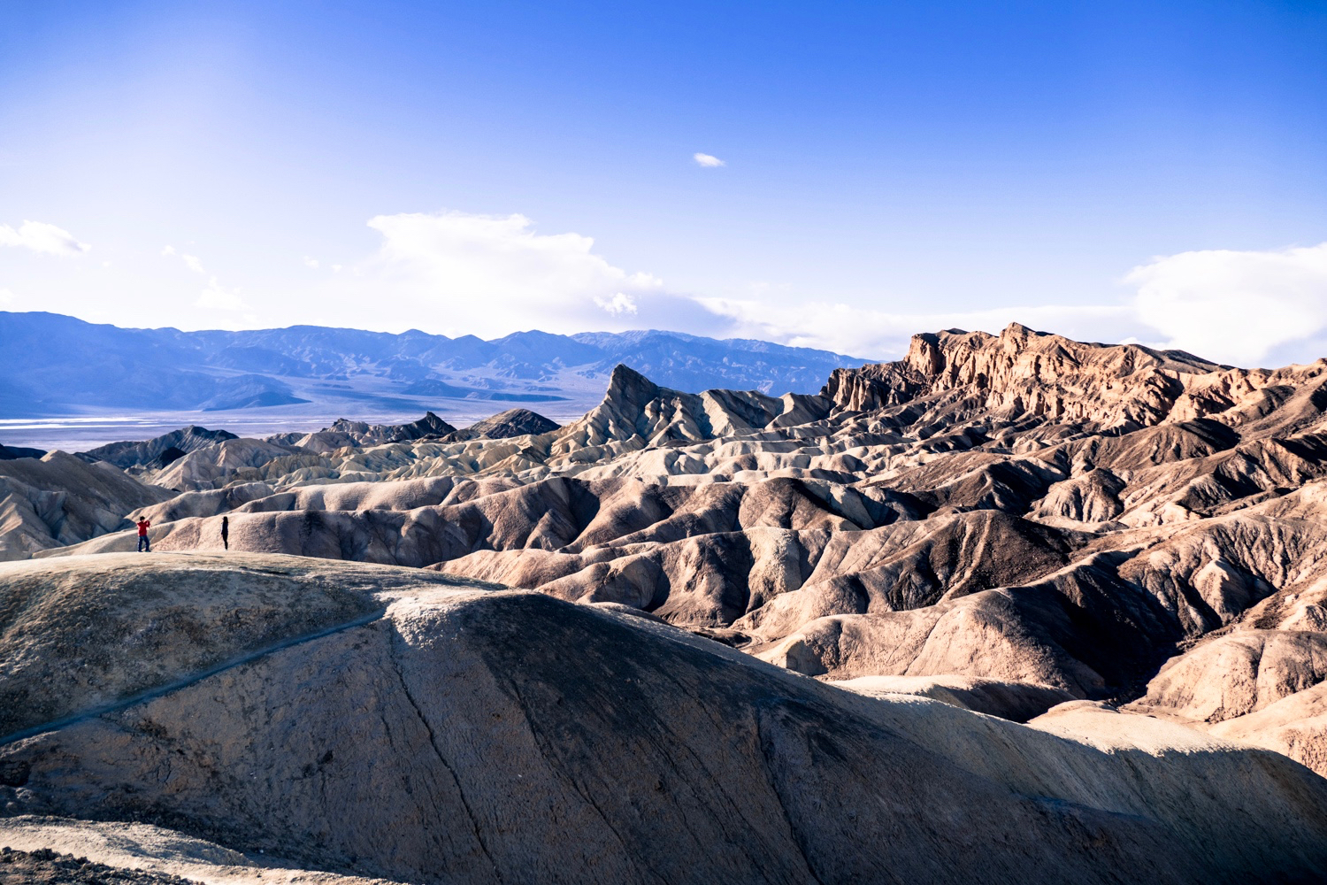 Death Valley